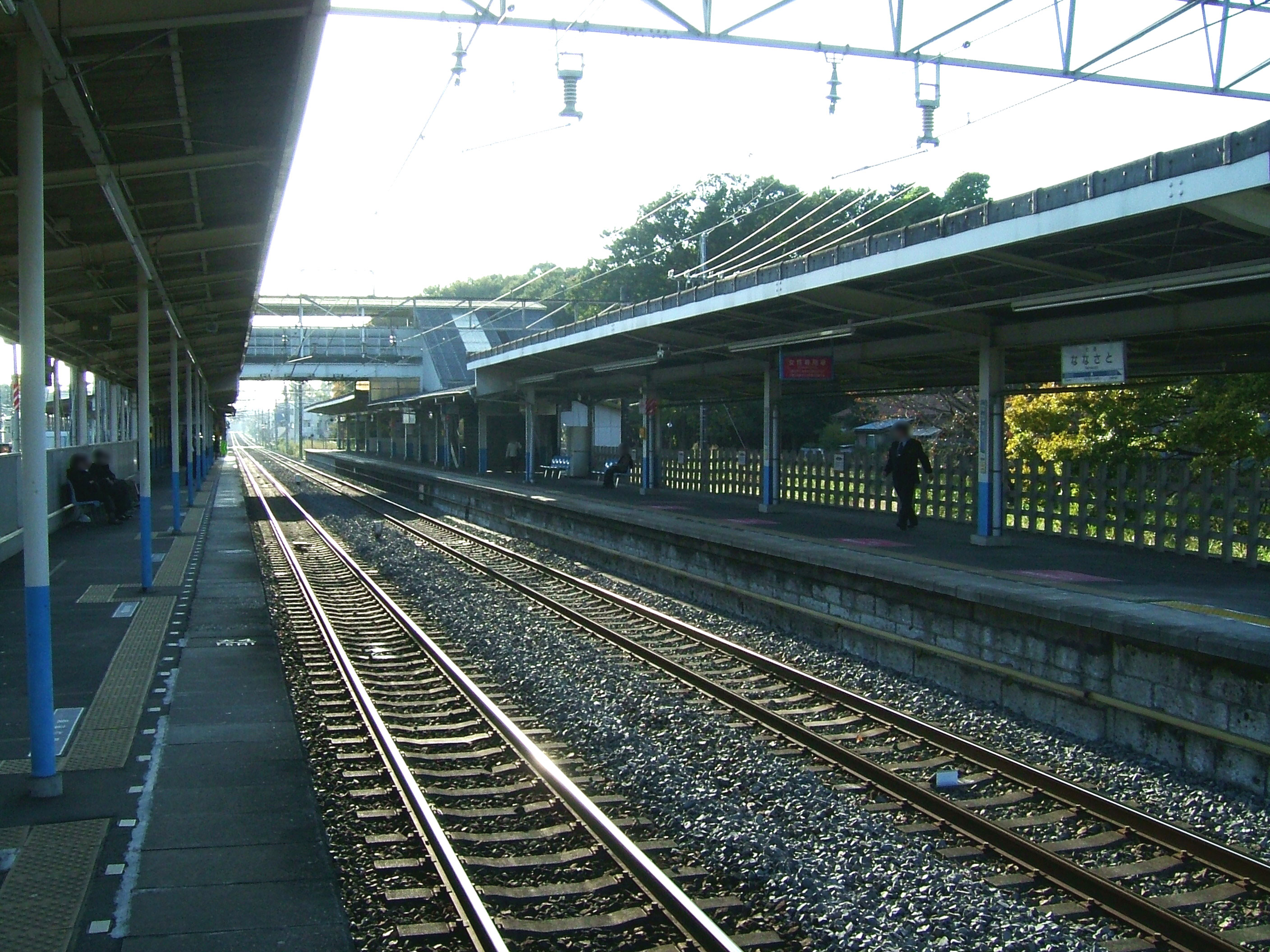 Nanasato Station platform (Tōbu Railway Noda Line)